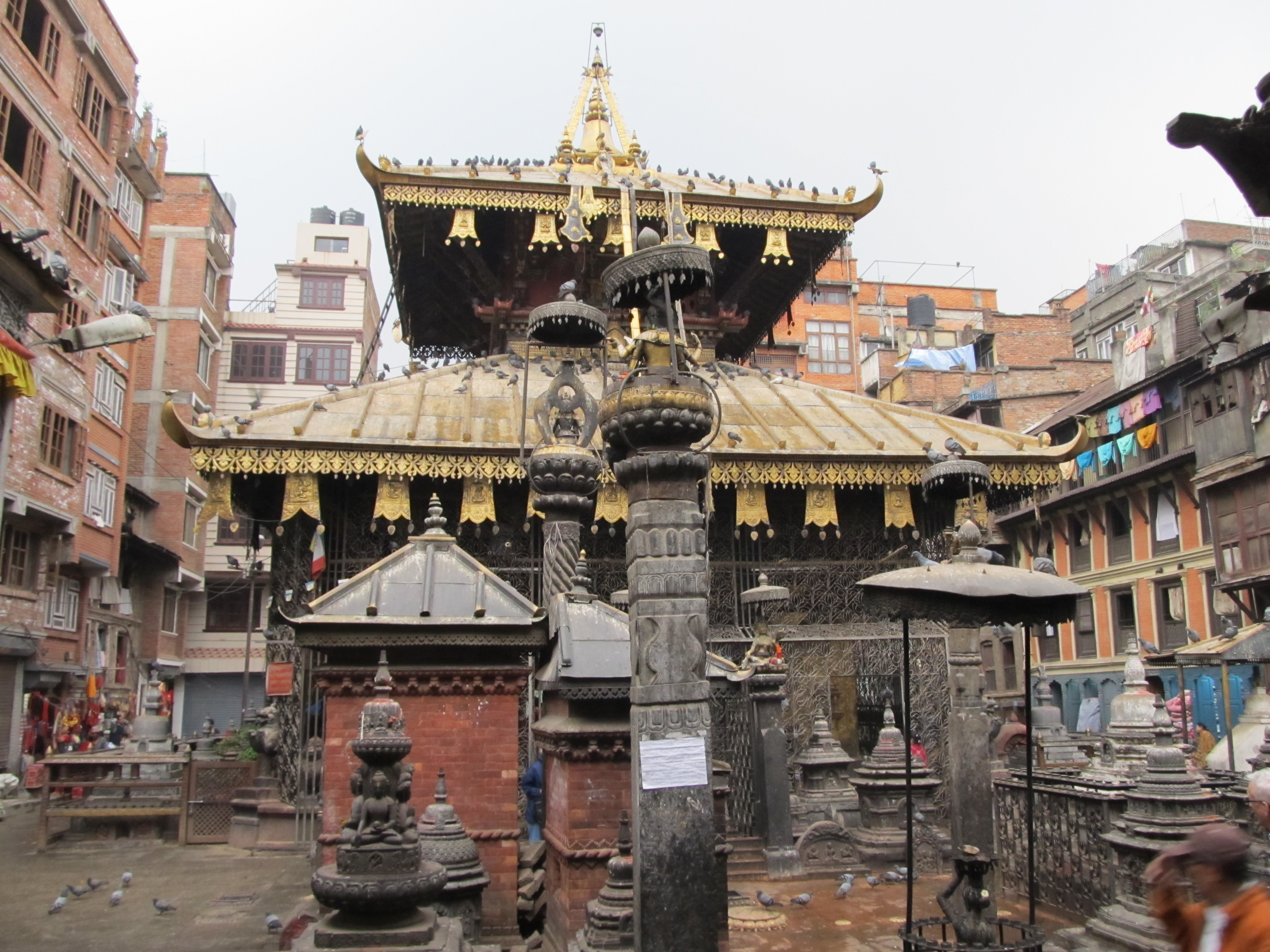 Janabaha temple in Old Kathmandu, off Kel Tol (square), Kathmandu